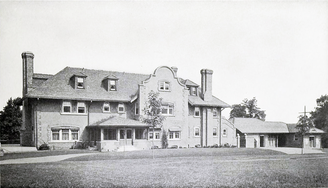 Photograph of Chestnut Hills, a now-demolished Neo-Georgian brick mansion in Euclid, Ohio, in the United States. Meade & Garfield was the architectural firm. The house, completed in 1903, was owned by Great Lakes shipping magnate Henry S. Pickands. It was demolished by his widow about 1938.